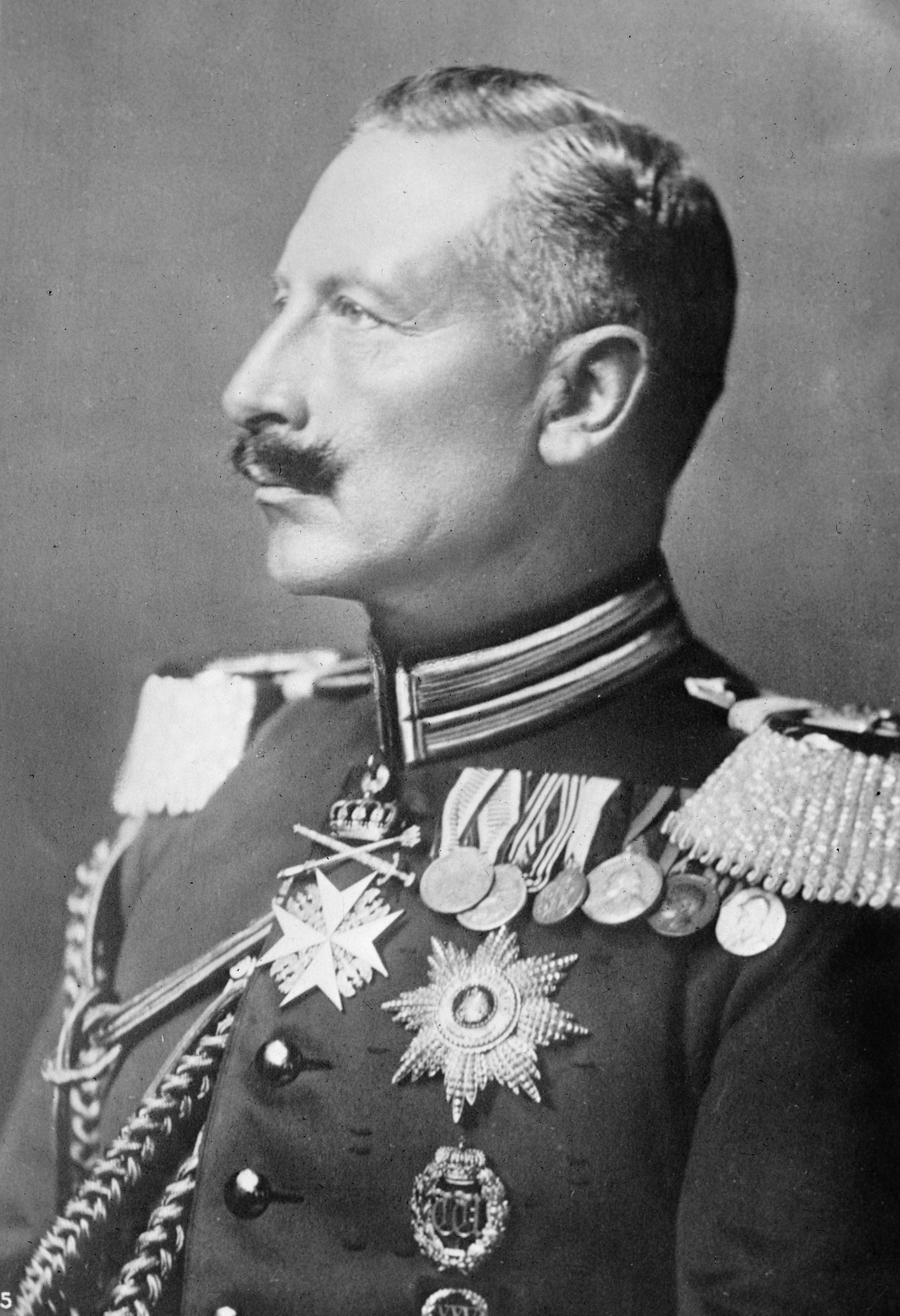 Bain News Service,, publisher. Kaiser Wilhelm [between 1910 and 1914] 1 negative : glass ; 5 x 7 in. or smaller. Notes: Title from unverified data provided by the Bain News Service on the negatives or caption cards. Forms part of: George Grantham Bain Collection (Library of Congress). Format: Glass negatives. Repository: Library of Congress, Prints and Photographs Division, Washington, D.C. 20540 USA, General information about the Bain Collection is available at Persistent URL: Call Number: LC-B2- 2598-3 Original image also bears notice: originalaufnahme von E. Bieber hofphotograph.